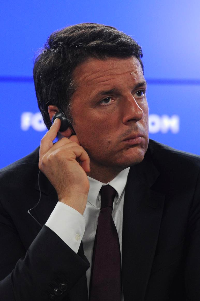 Matteo Renzin in June 2016